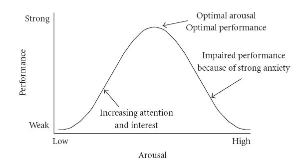 Hebbian version of the Yerkes Dodson curve. This left out the lack of negative impact hyperarousal has on simple tasks.